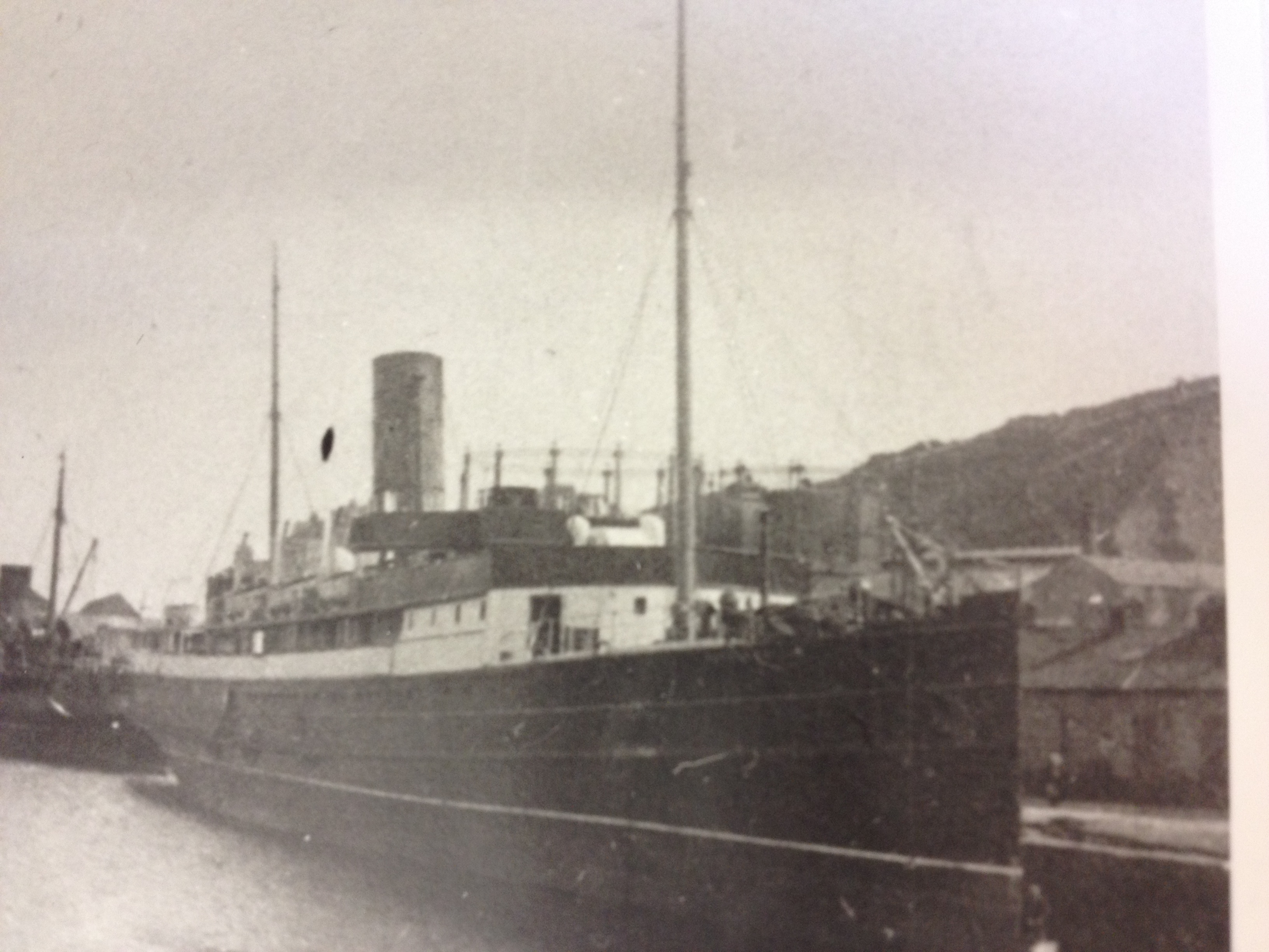 SS Rushen Castle pictured during her winter lay-up at the Tongue, Douglas Isle of Man, 1936.